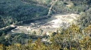 This photo shows geoglyph called Bunjil a mythical creature to the local Wathaurong Aborigines. It was constructed in 2006 by world-renowned Australian artist Andrew Rogers at the You Yangs National Park, Lara.